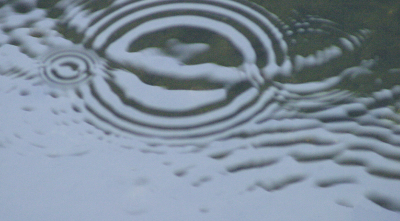 Ripples in water